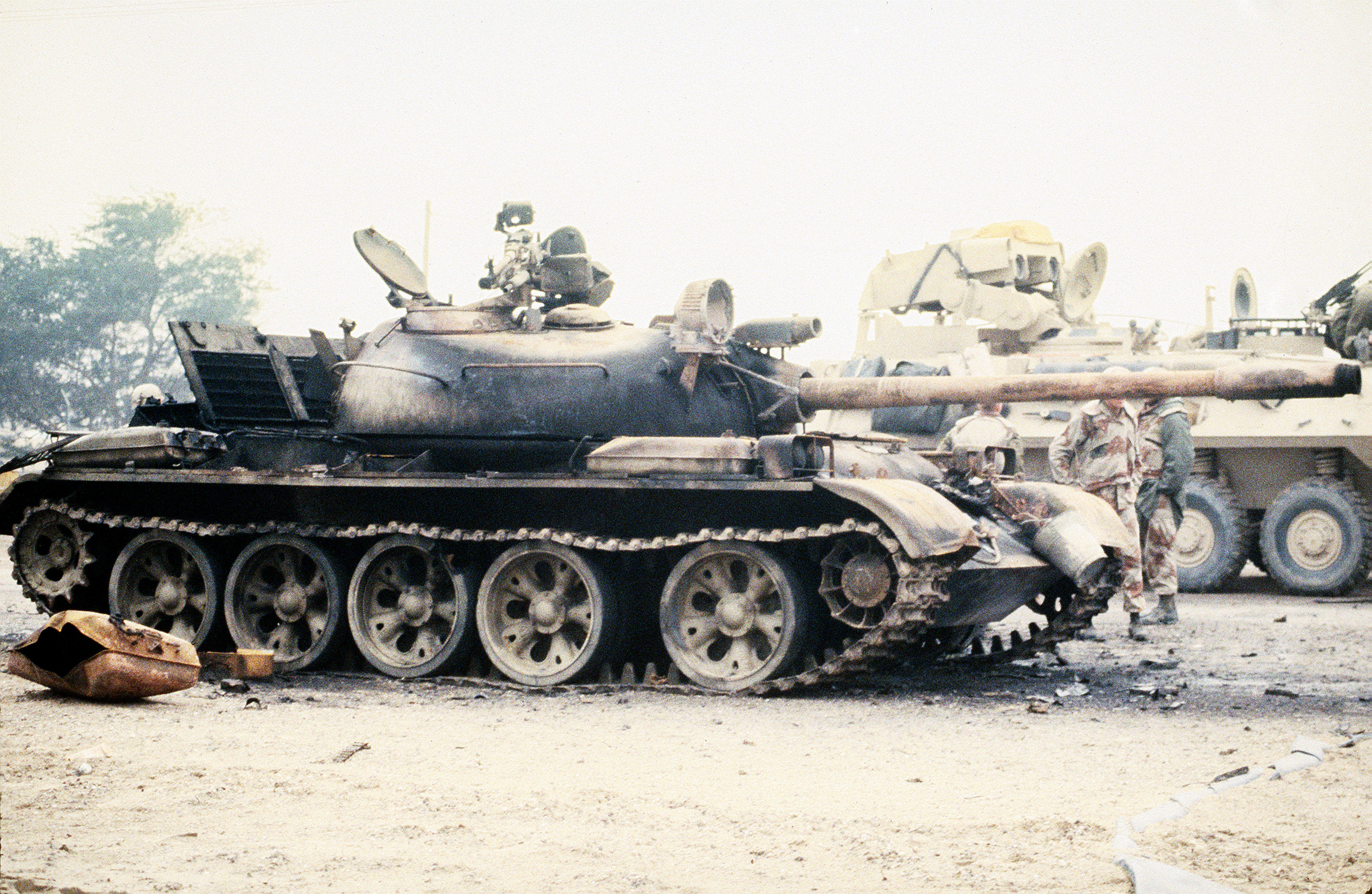 Marines inspect an Iraqi Type 69-II main battle tank damaged during Operation Desert Storm. A Marine Corps LAV-AT light armored anti-tank vehicle is in the background.